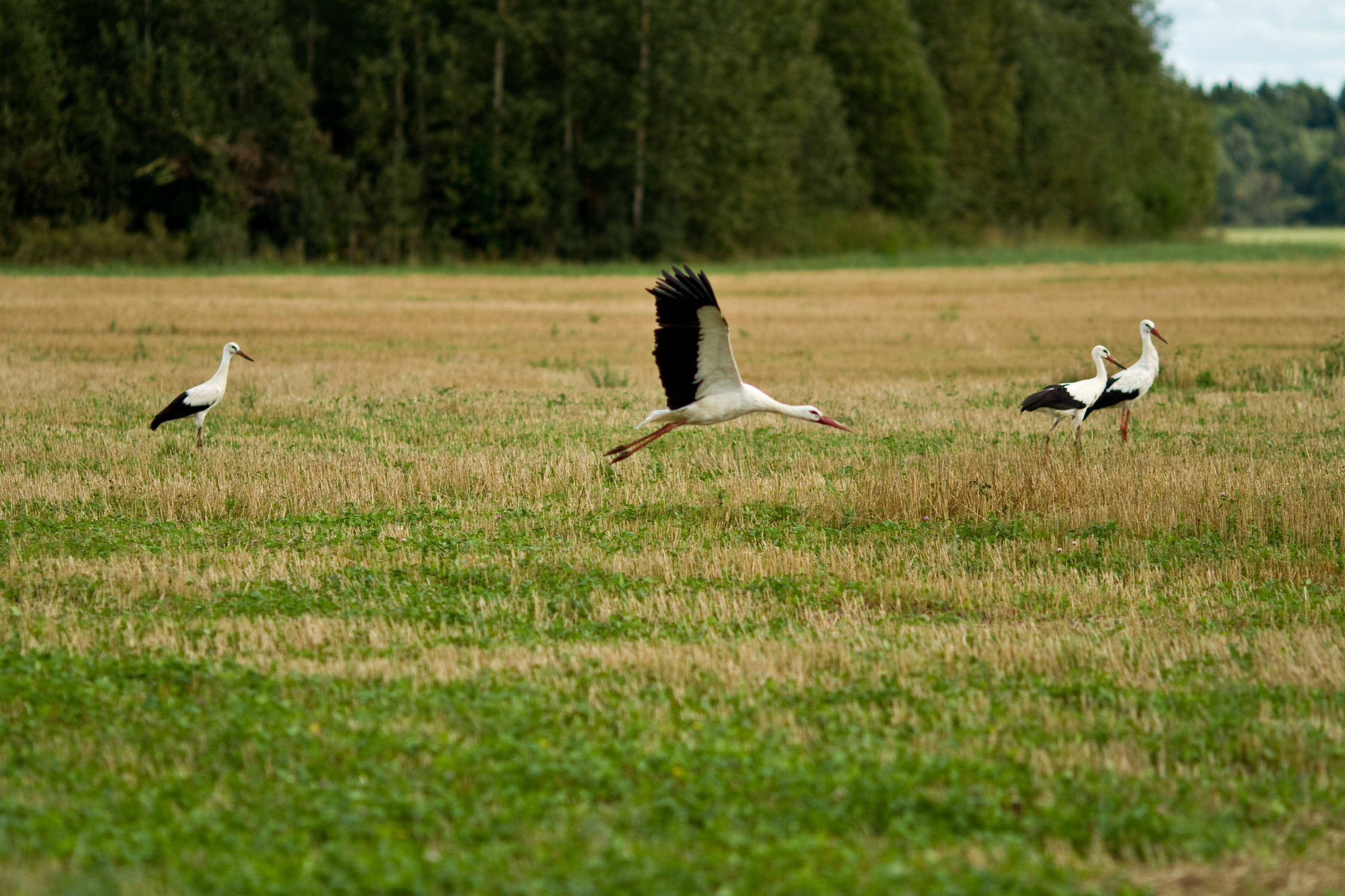 Ciconia ciconia. Vierchniadźvinsk district, Viciebsk province, Belarus.